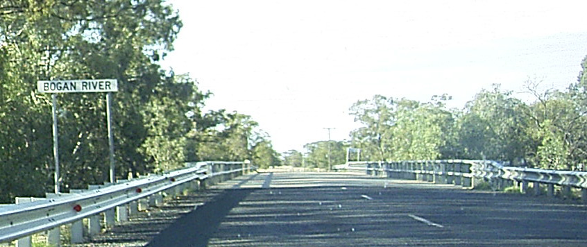 Crossing of the Bogan River on the Dandaloo-Trangie Road, at approximately 30.32 degrees South, 149.78 degrees East.